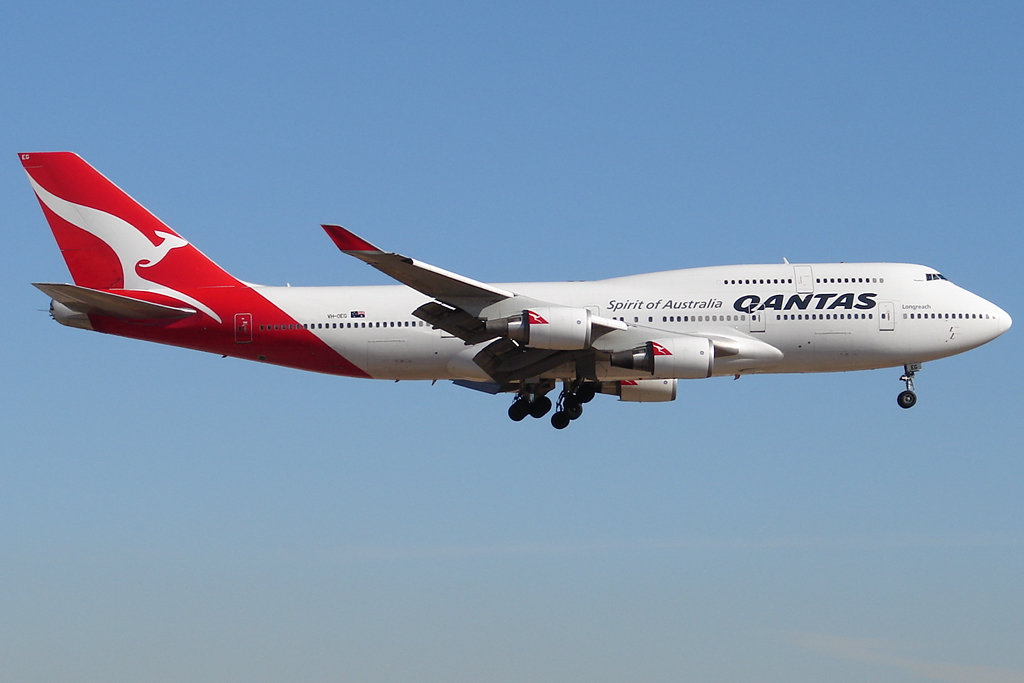 Stunning Texas light greets this Queen as she arrives from SYD.